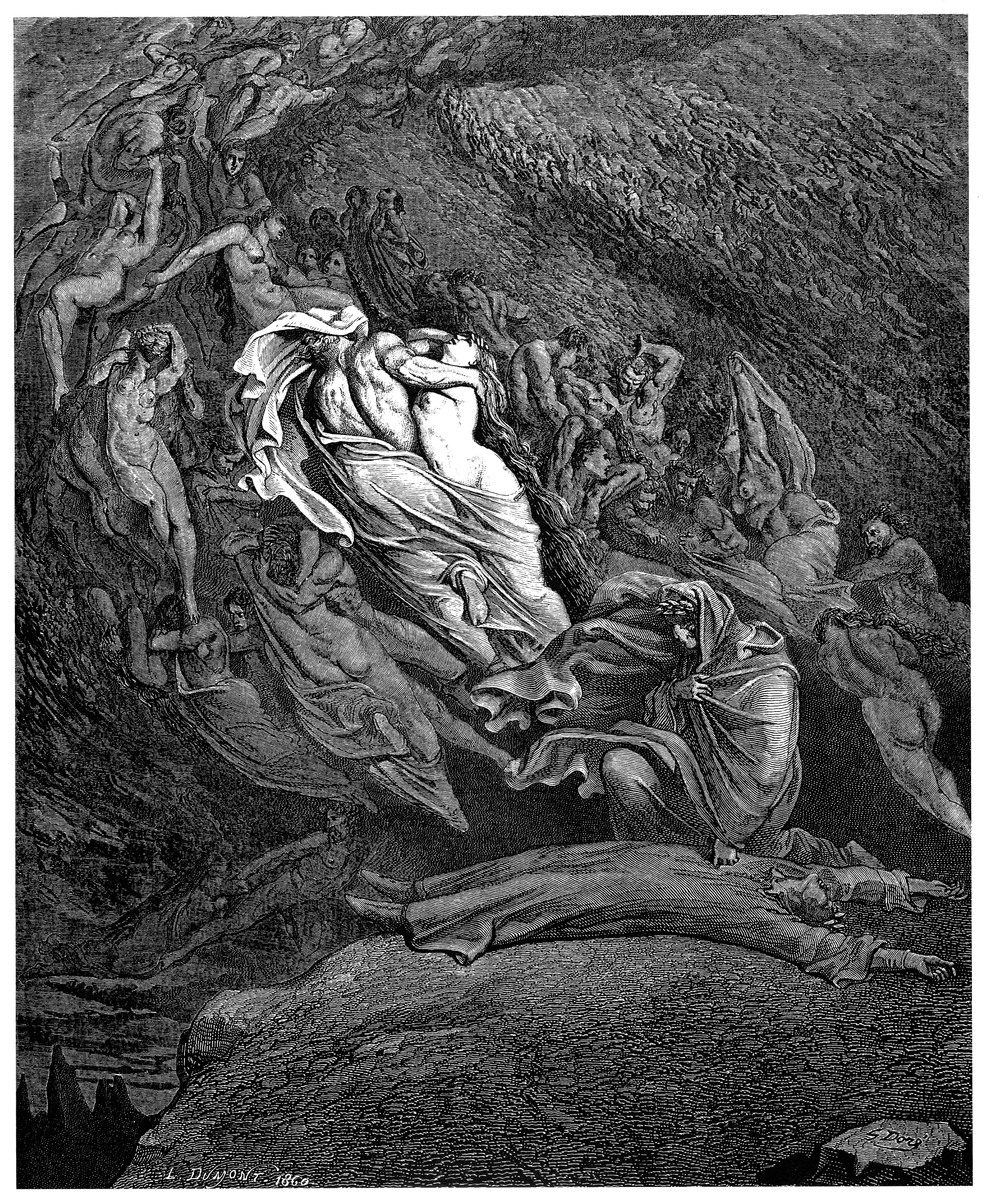 Gustave Doré's illustration to Dante's Inferno. Plate XVIII: Canto V: Dante is so overcome by the sad tale of Francesca di Rimini that he faints. Yes really. And he fainted as he was being brought into Limbo, too. What is this, a romance novel? Let's check the text: "I swooned away as if I had been dying, / And fell, even as a dead body falls." (Longfellow translation) - Guess so, then.